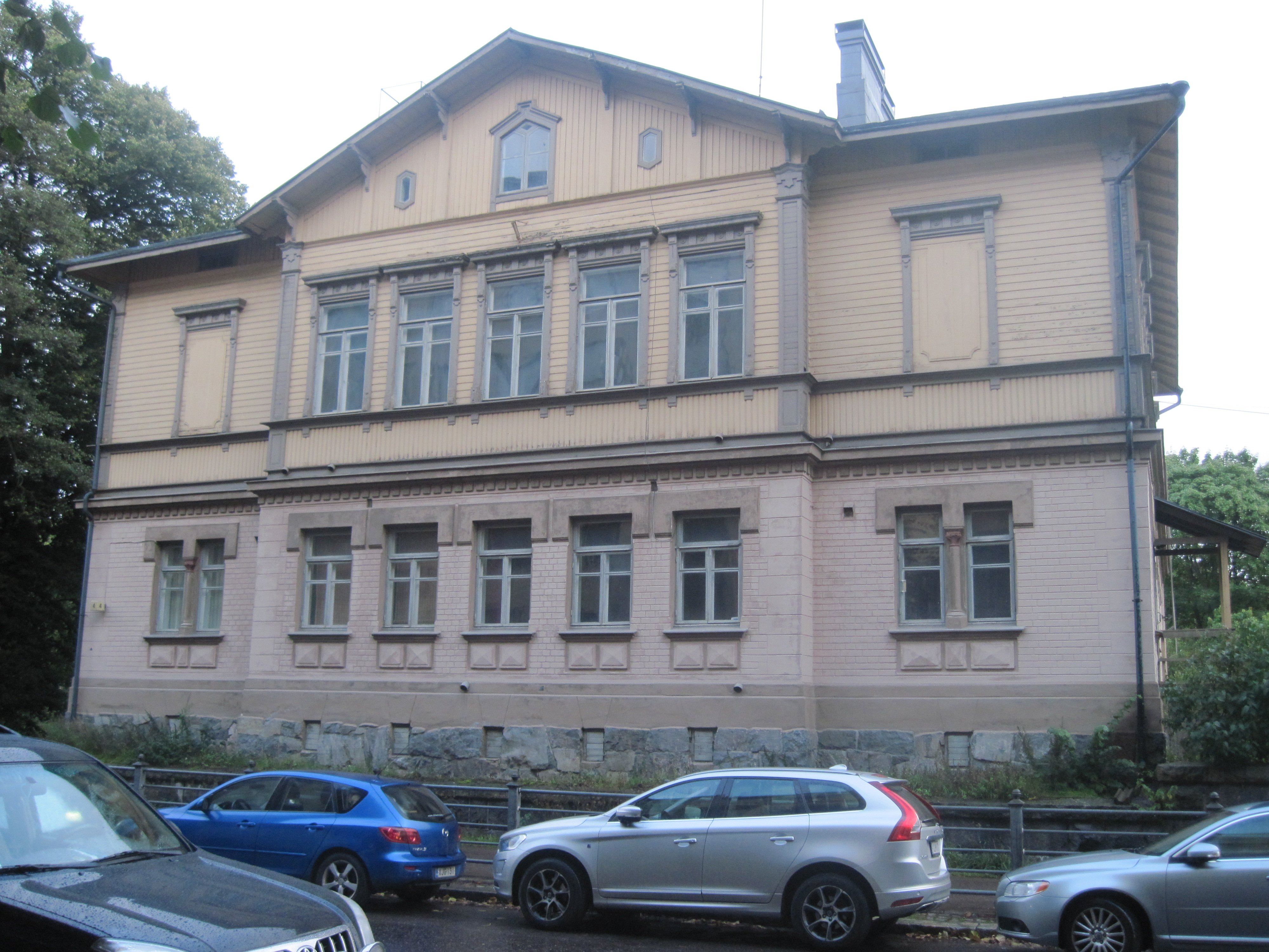 An old villa at Puistokatu 2, Helsinki, at the border of Kaivopuisto